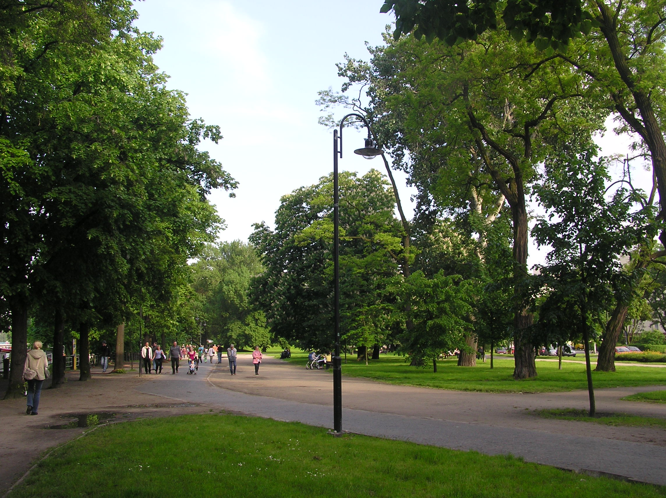 Wrocław, Xawerego Dunikowskiego Boulevard